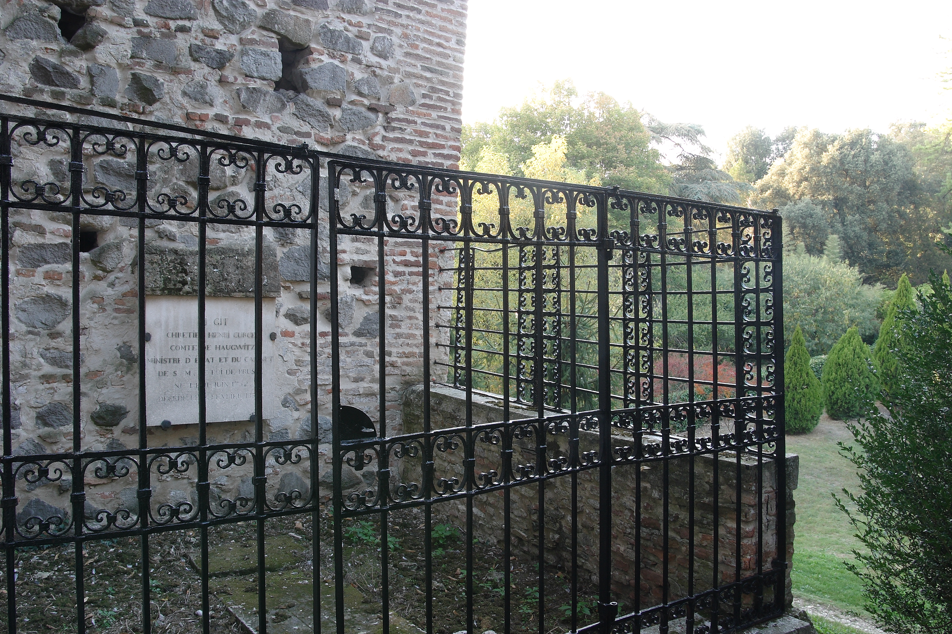 The Tomb of the "Prussiano"